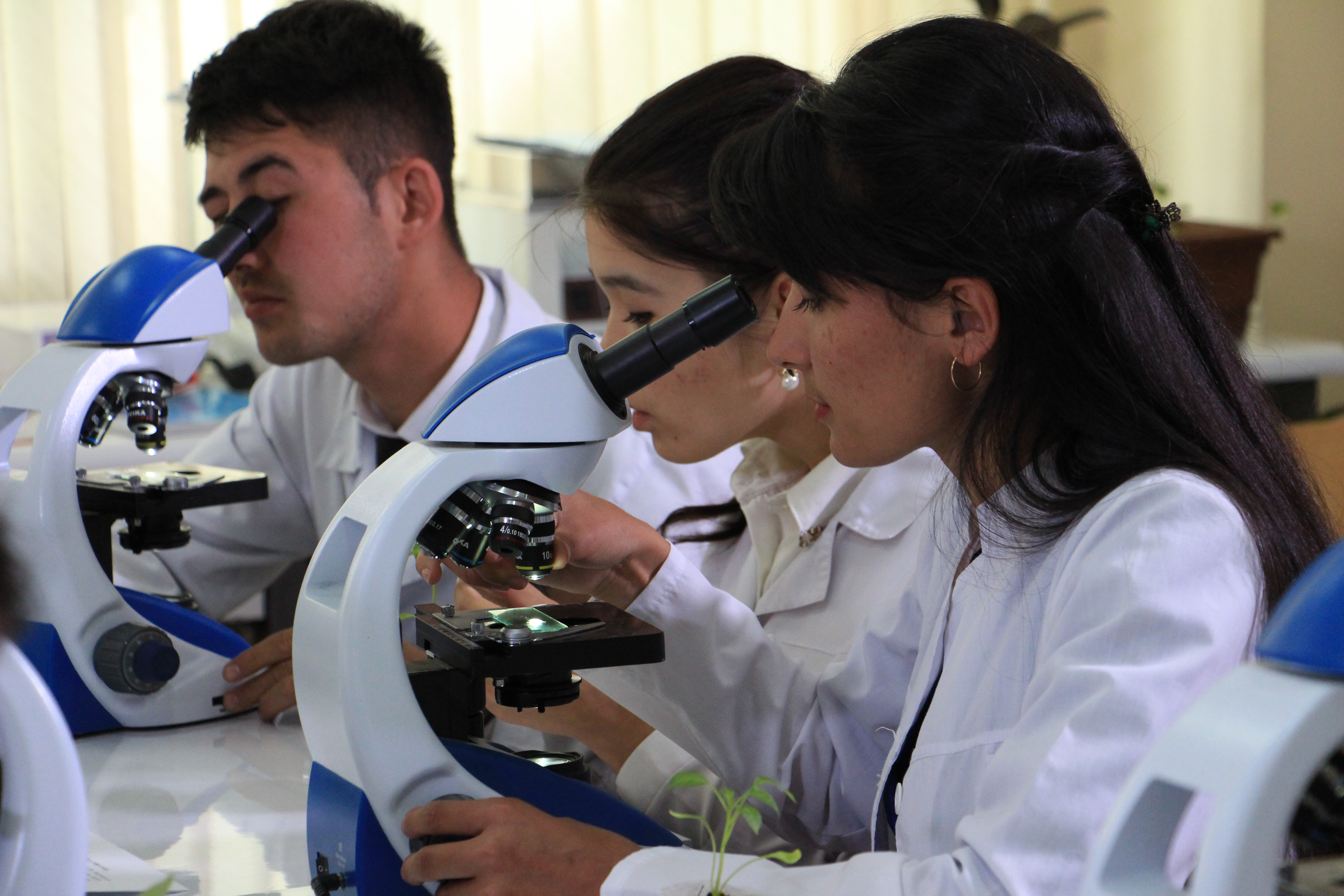 labaratoriya